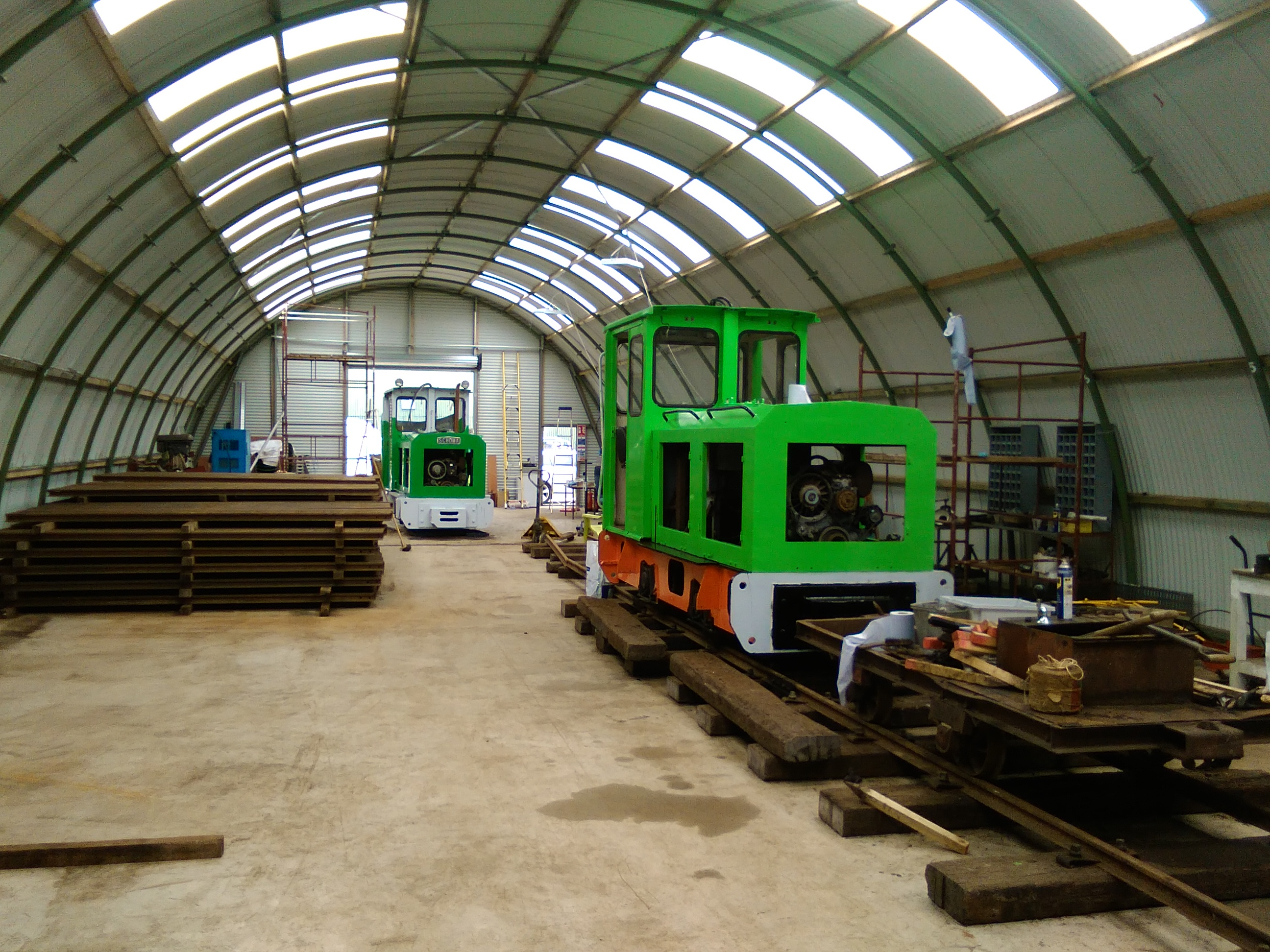 Schoma 5220, built 1991 on the track at Crowle Peatland Railway, Lincolnshire, England. To the rear is Schoma 5129, built 1990, awaiting the installation of more track.